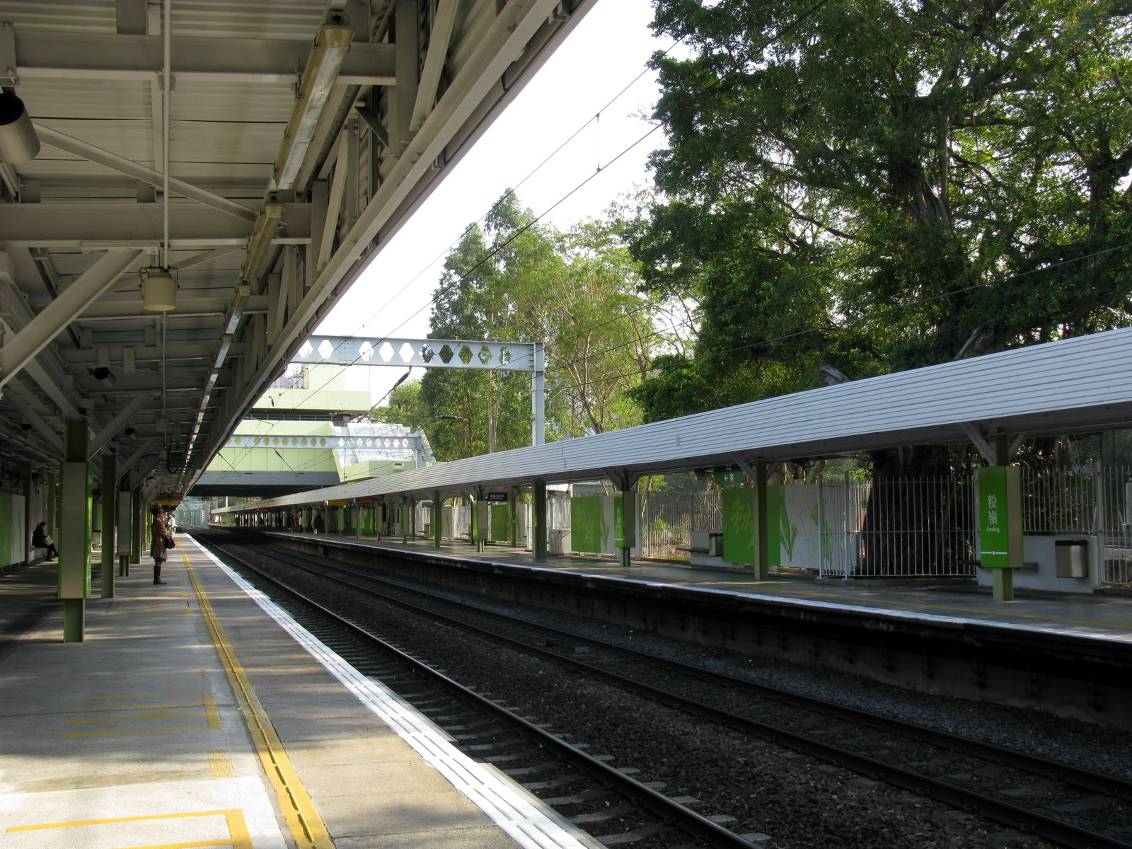 East Rail Line Platform of Fanling Station